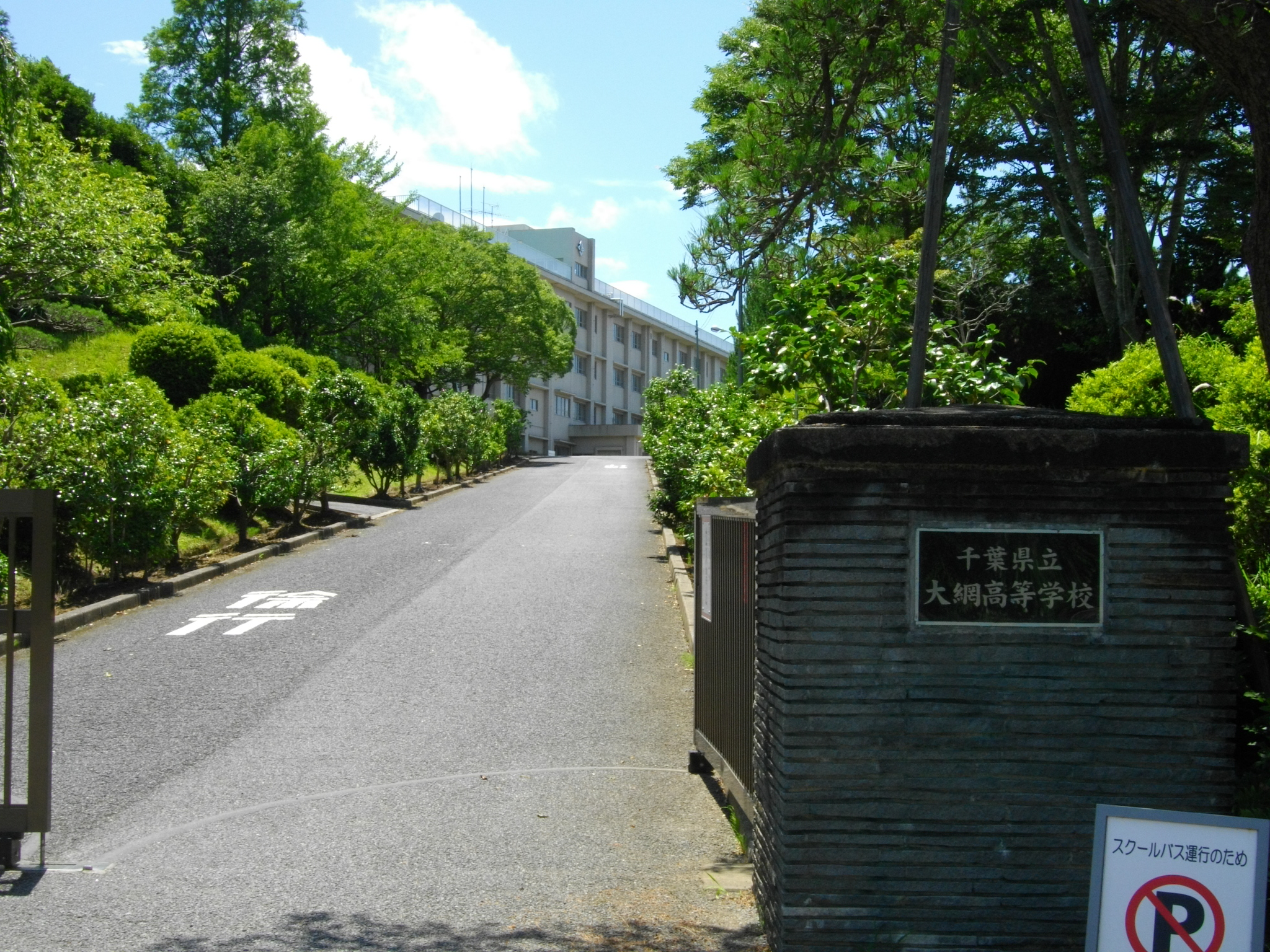 Oami High School Technical Campus